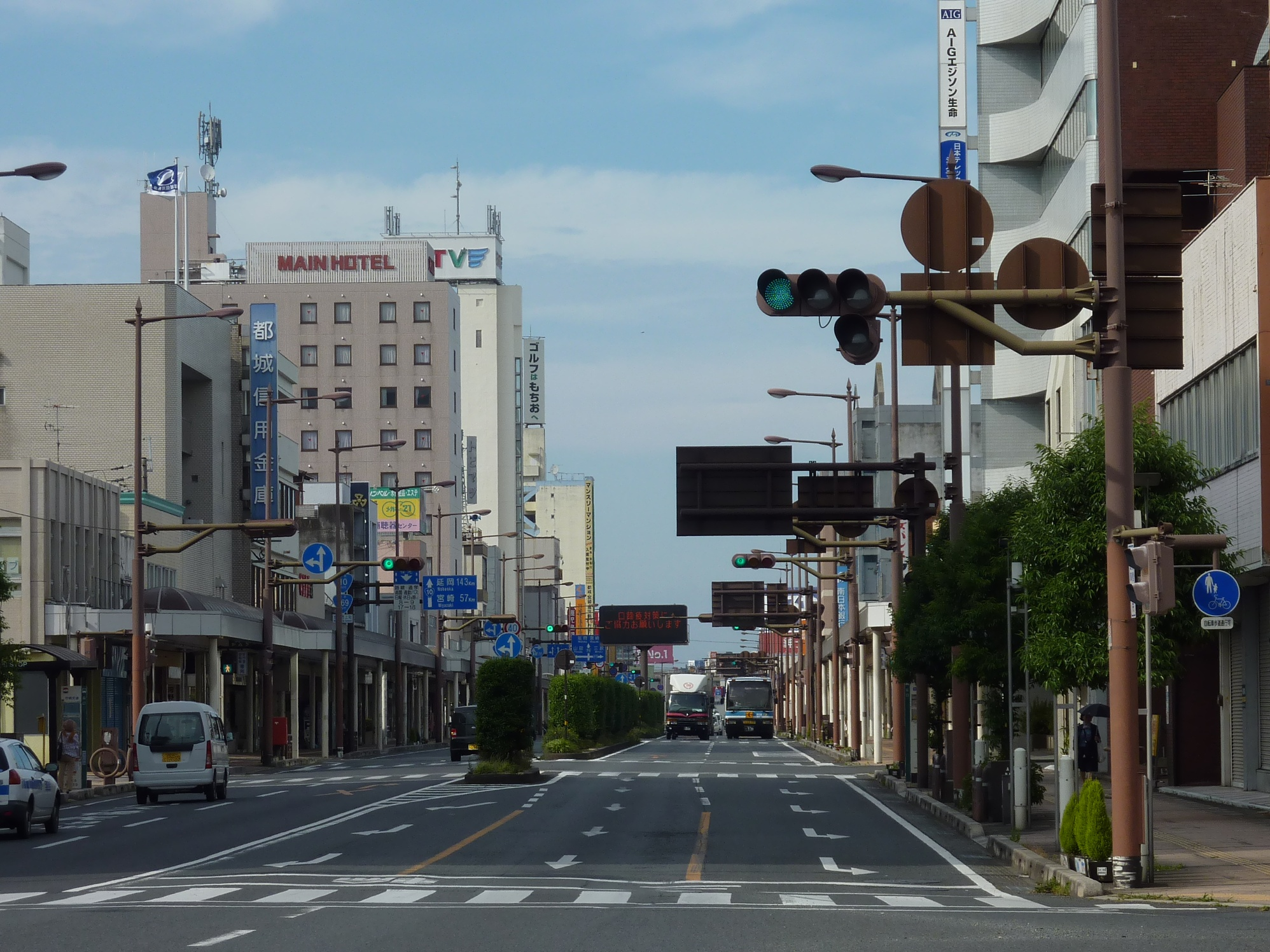 The National Route 10 in Central Miyakonojo City, Miyazaki Prefecture, Japan.